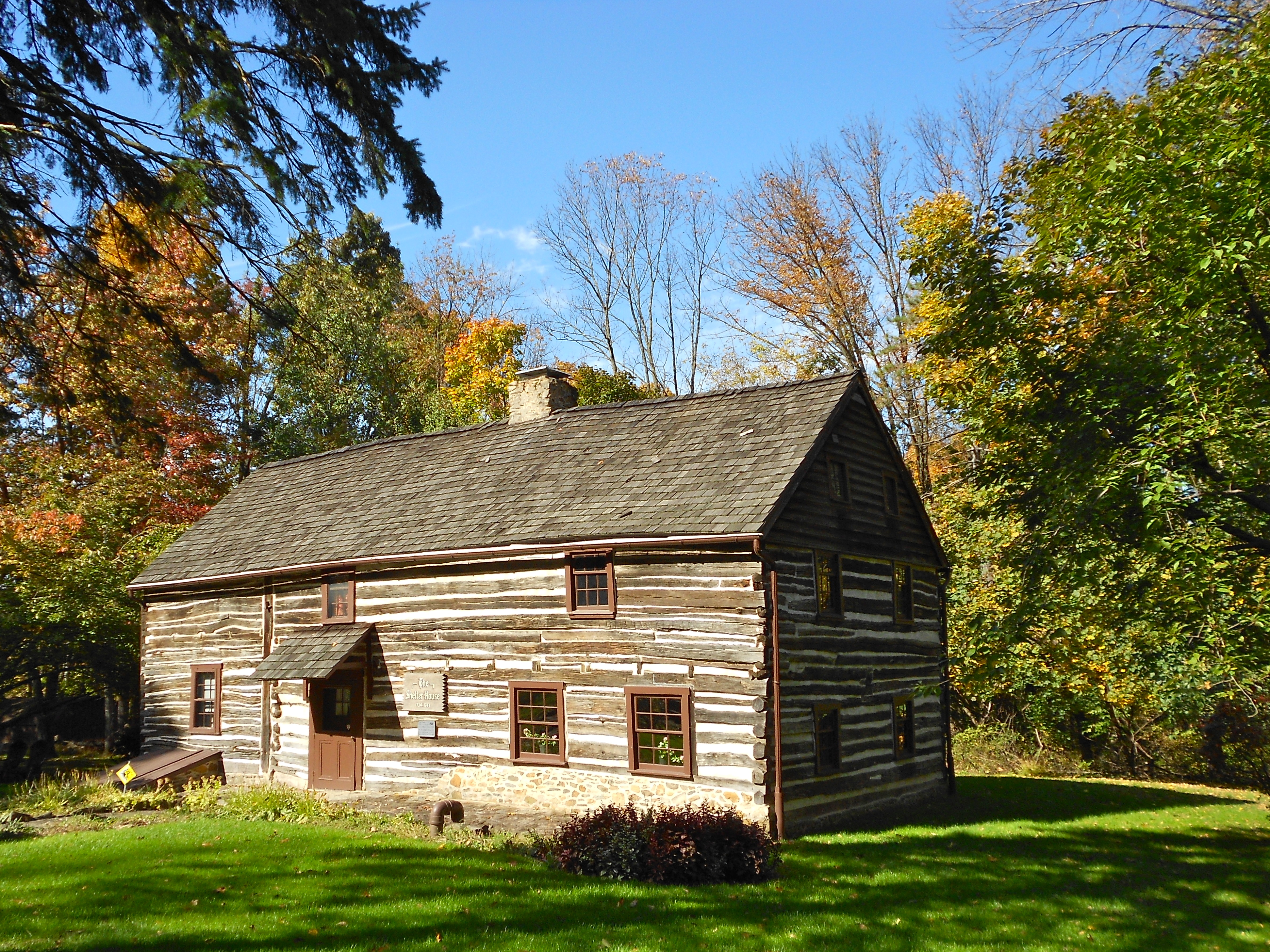 Shelter House on the NRHP since February 17, 1978. In the park near the south end of South 4th Street, Emmaus, Lehigh County, Pennsylvania. The left side is older and smaller, built in the 1730s, the right side, bigger and better constructed, built in the 1740s